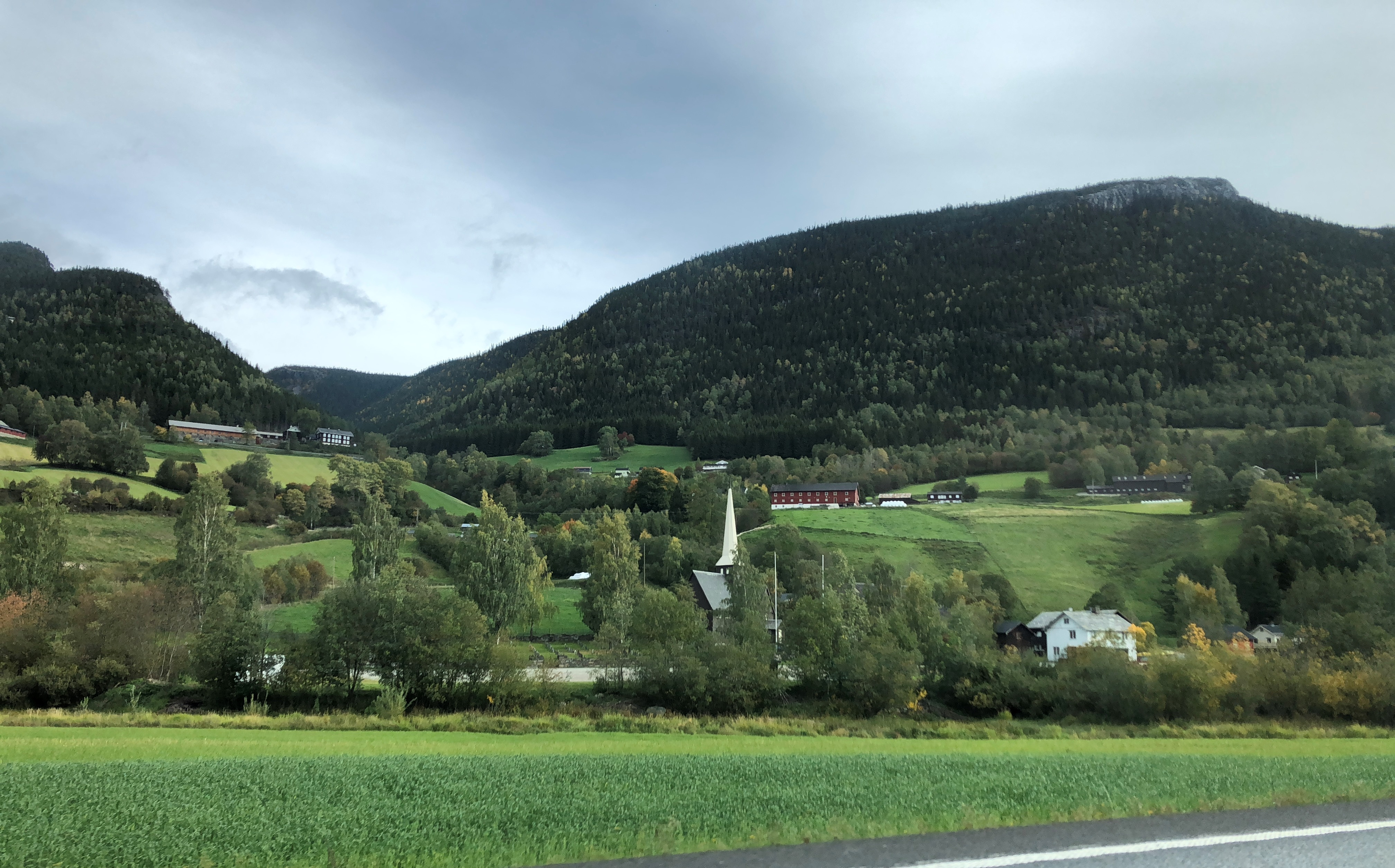 Fåvang kirkested (Fåvang Church) With surrounding Mountains far south in Ringebu municipality, Oppland (Norway).